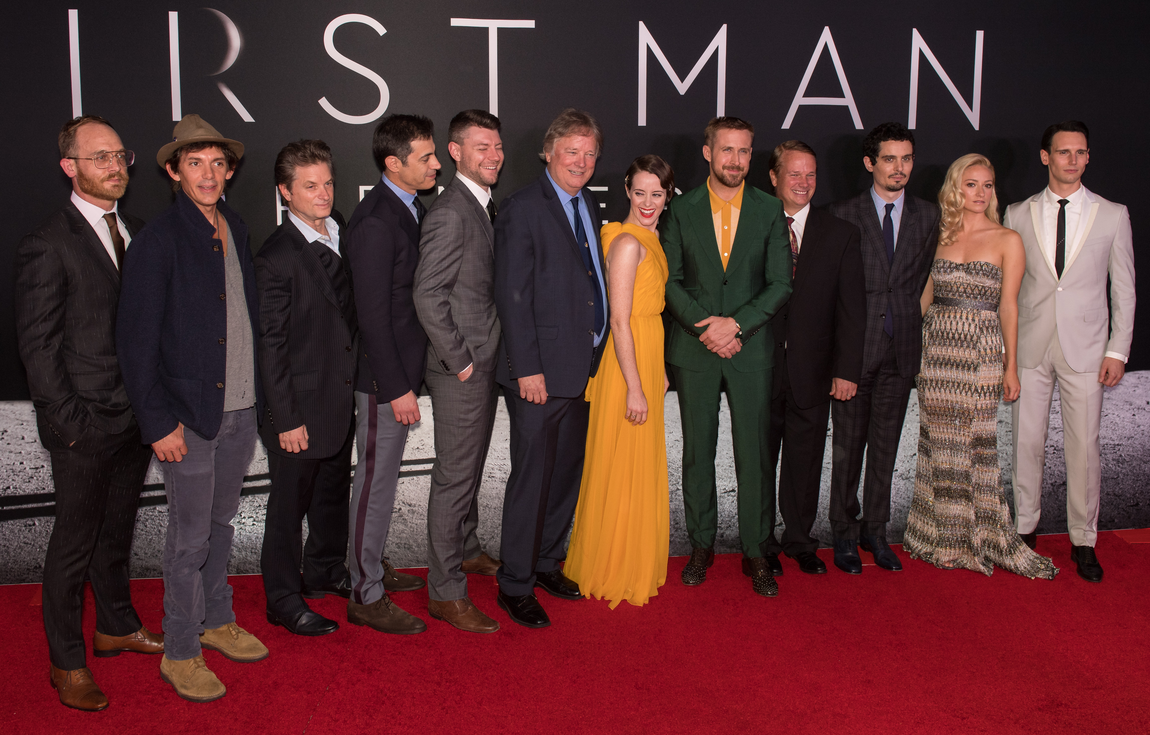 The cast of the film "First Man" pose for a photo after arriving on the red carpet for the premiere at the Smithsonian National Air and Space Museum Thursday, Oct. 4, 2018 in Washington. The film is based on the book by Jim Hansen, and chronicles the life of NASA astronaut Neil Armstrong from test pilot to his historic Moon landing.